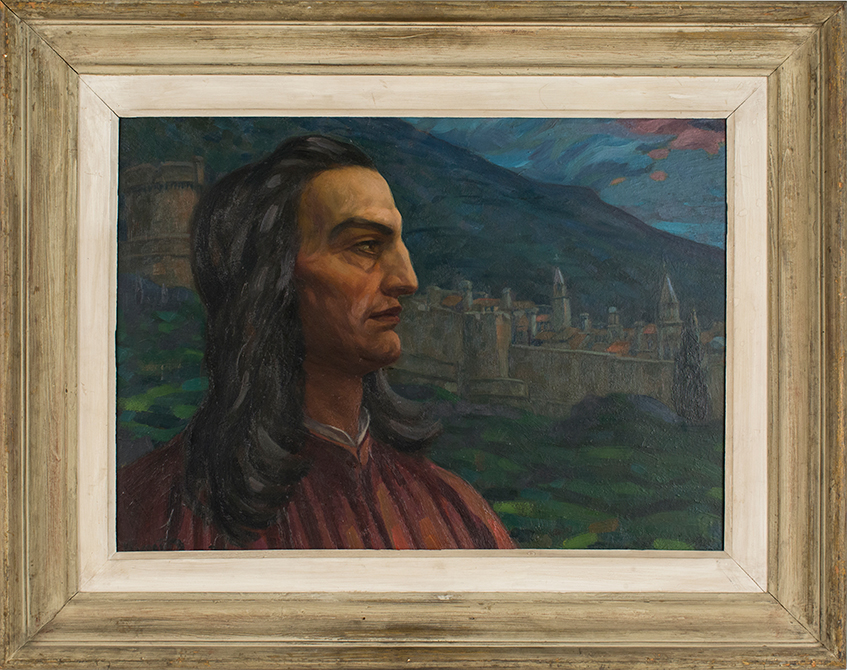 Potrait of Ragusan writer Ivan Gundulić by Serbian painter Mako Murat